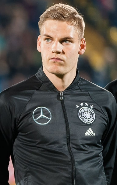 Max Christiansen